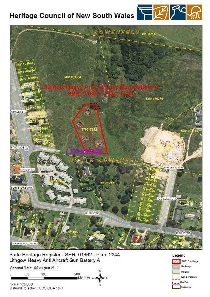 Lithgow Heavy Anti Aircraft Gun Stations and Dummy Station: SHR Plan 2344 - Gun Battery A